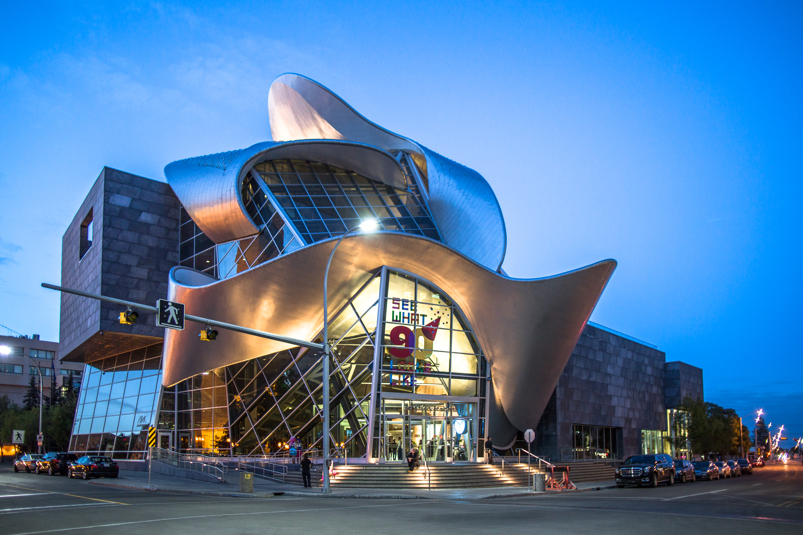 The Art Gallery of Albertais a public art gallery located in downtown Edmonton, Alberta, Canada. The building was designed by Los Angeles architect Randall Stout. Construction of this building began in 2007 and was finished in 2010. Its collection of well over 6,000 works of art includes historical and contemporary paintings, sculptures, installation works and photographs by Canadian and international artists. In addition to its permanent collection, the AGA hosts visiting exhibitions and offers public education programs.